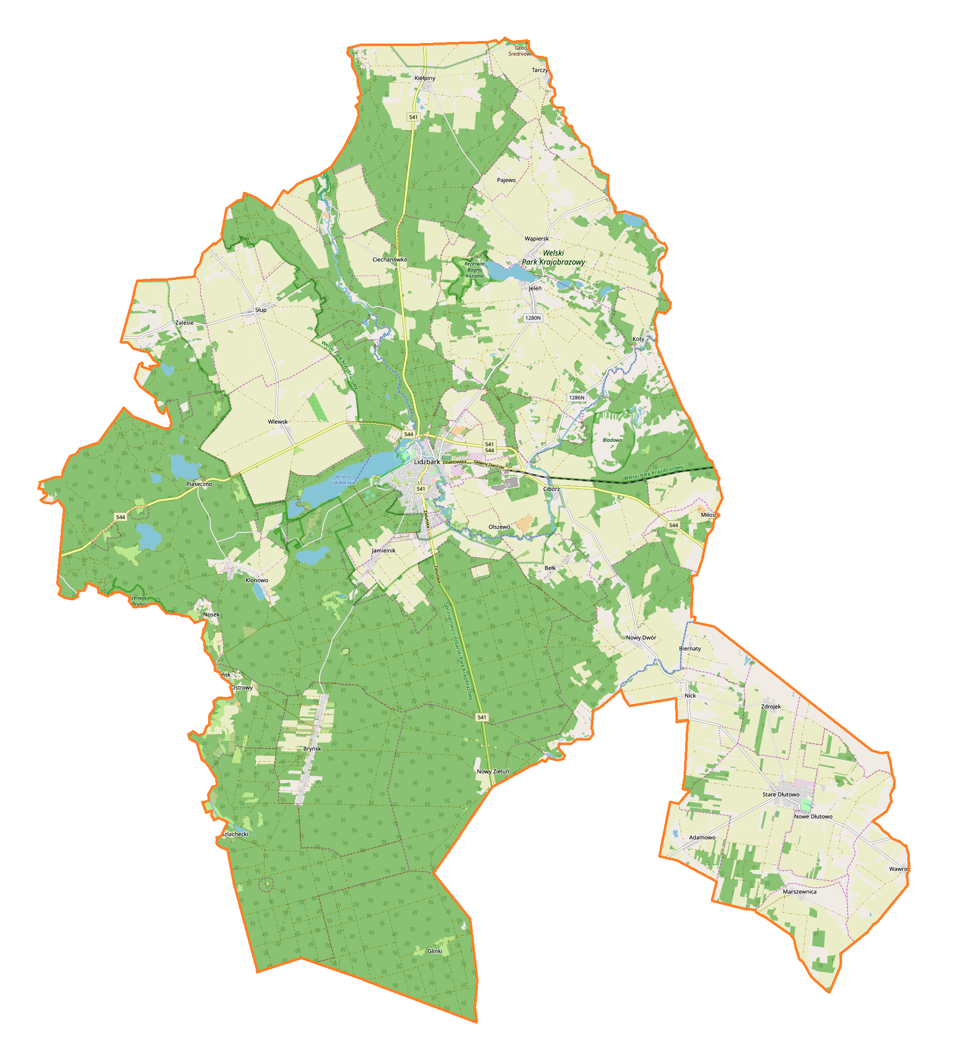 Location map